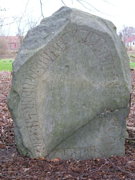 Örsjö runestone DR276